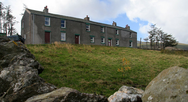 Skiddaw House Skiddaw House, the highest Youth Hostel in Britain.